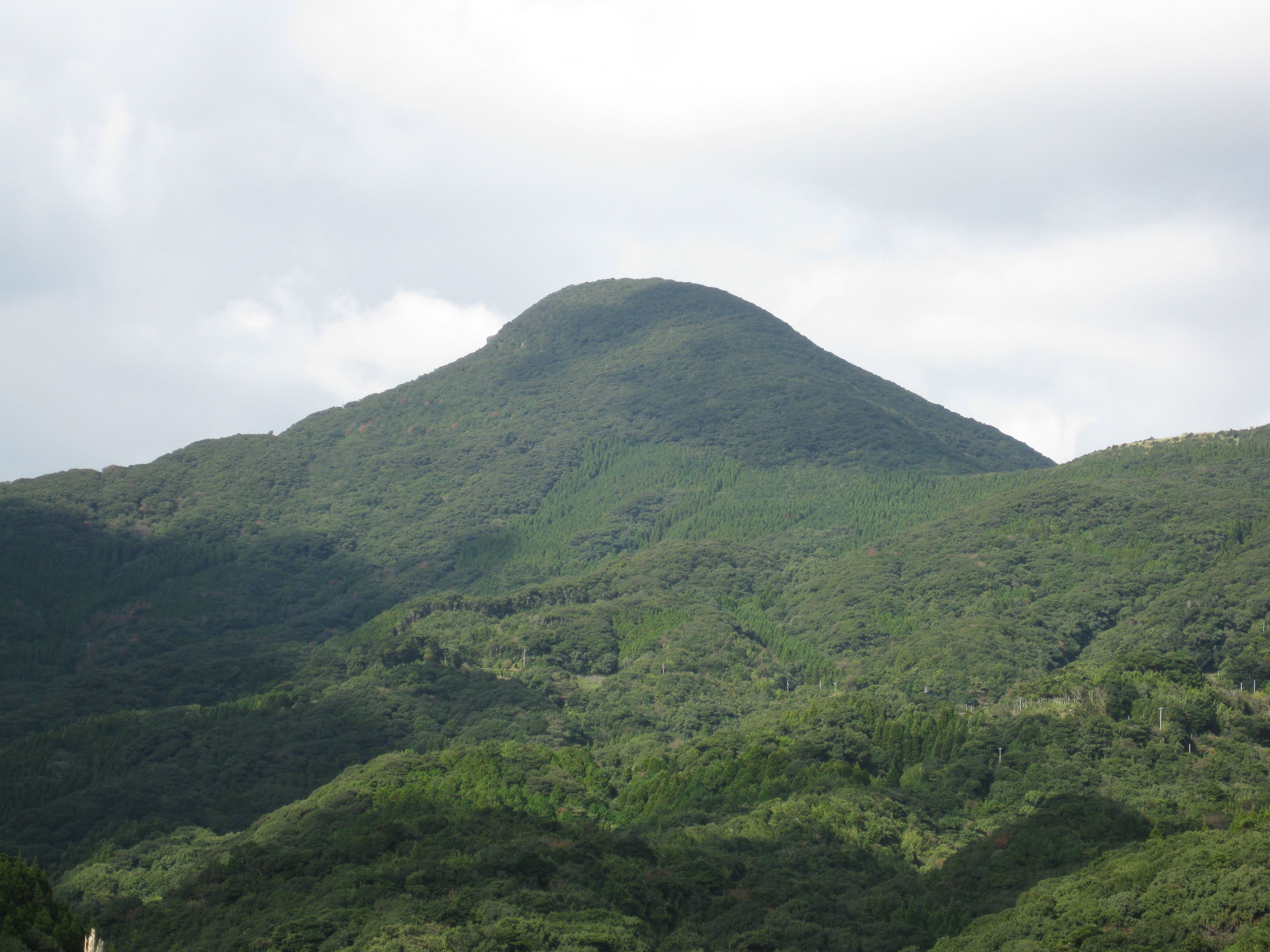 Mt. Noma-dake as seen from east by south in Kagoshima Prefecture, Japan